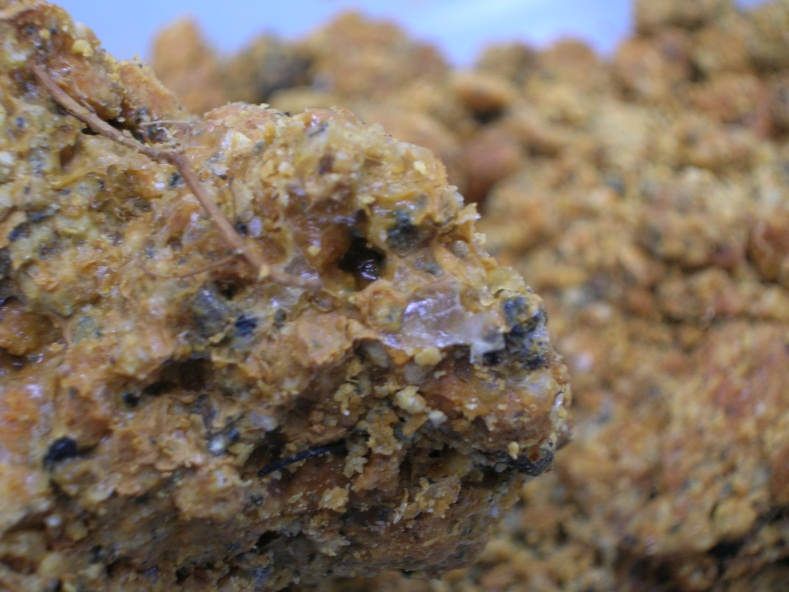 Photograph of natural imogolite films in soil